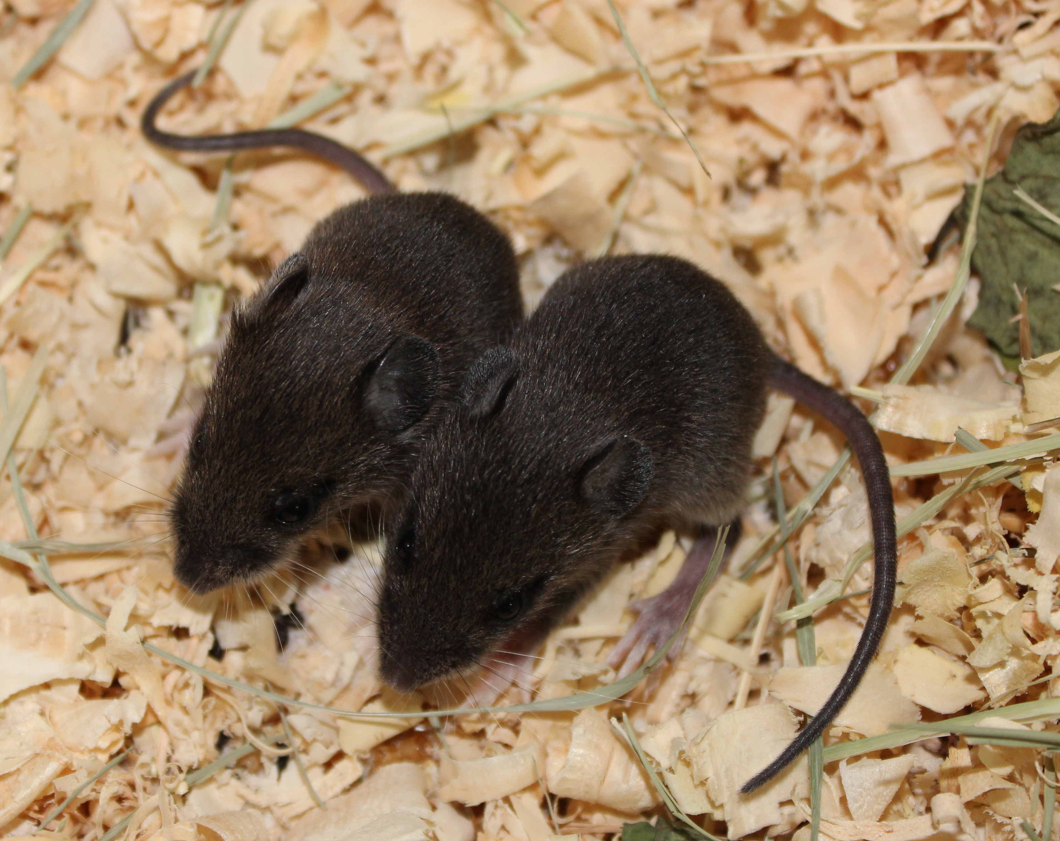 Taiwan field mouse (Apodemus semotus) - this is photo of two juveniles that were born in the lab.